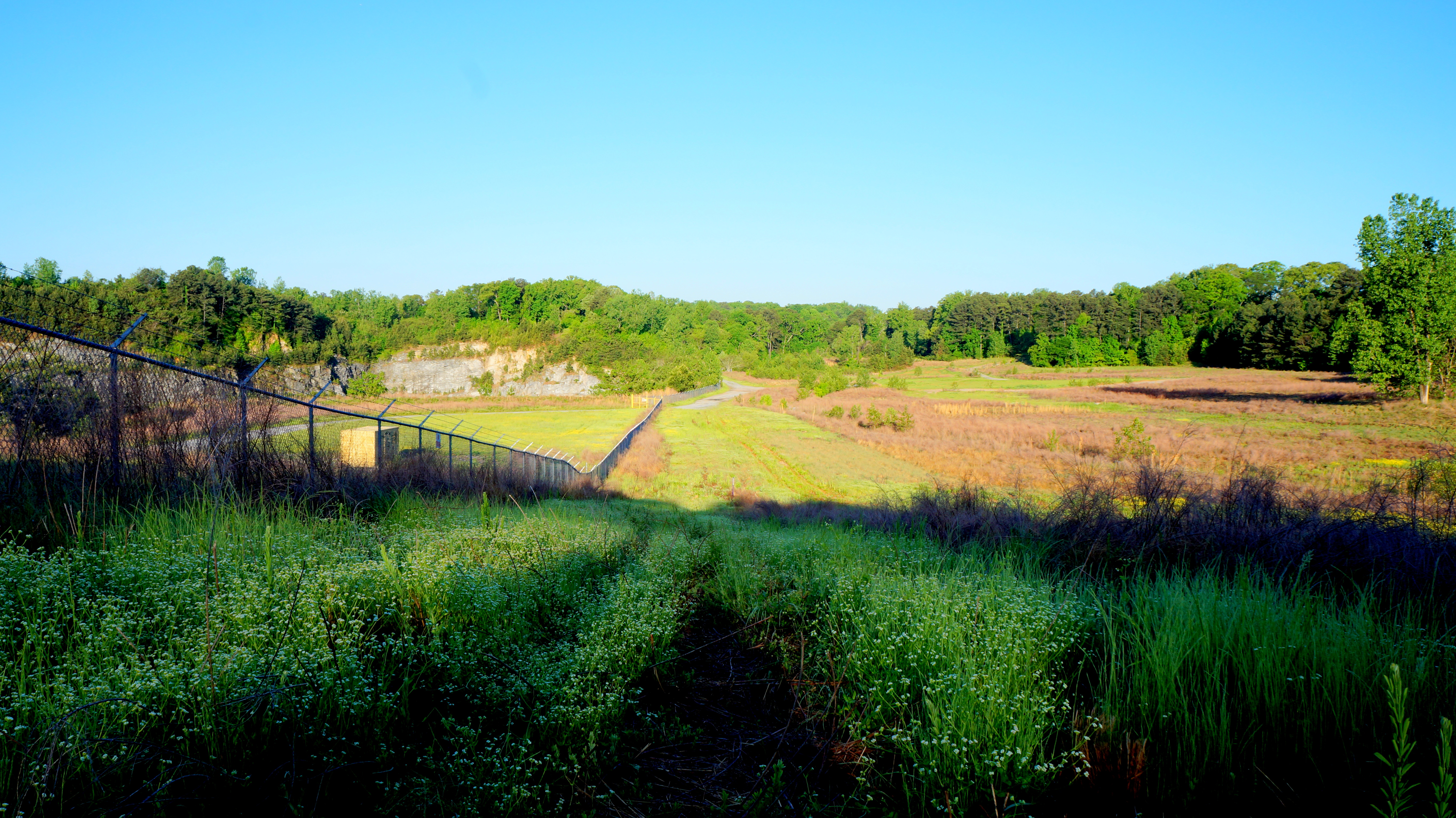 Looking west, the border to the Quarry itself is to the left of a field